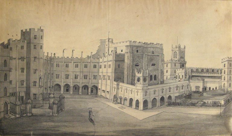 Interior View of Lancaster Castle by J. Weetman.